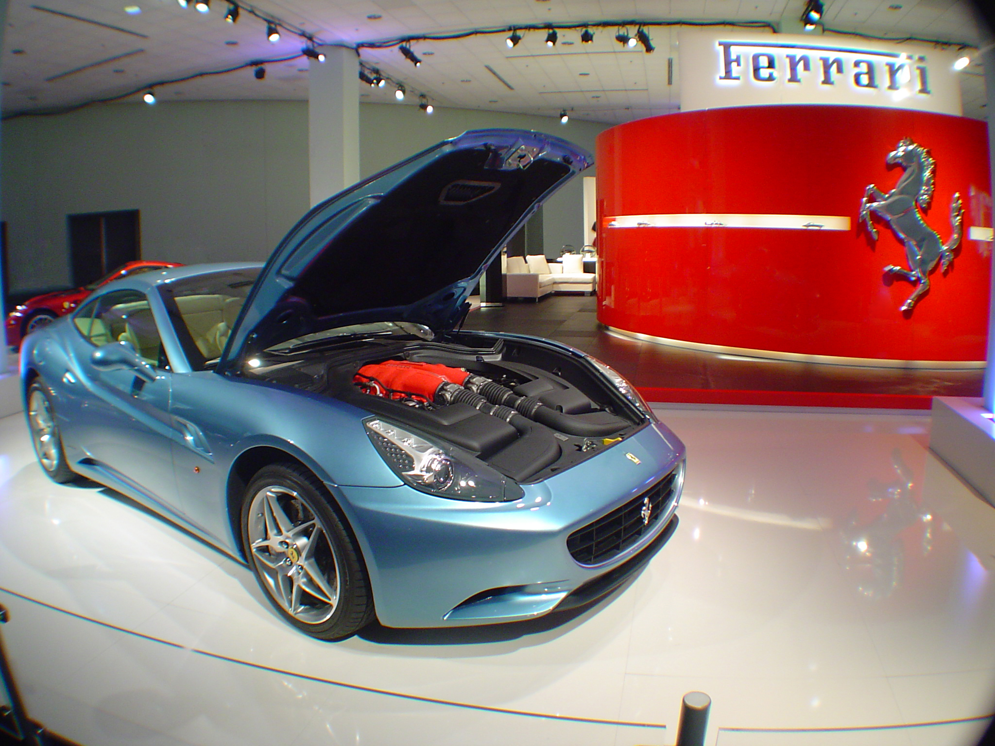 ferrari california @ LA auto show